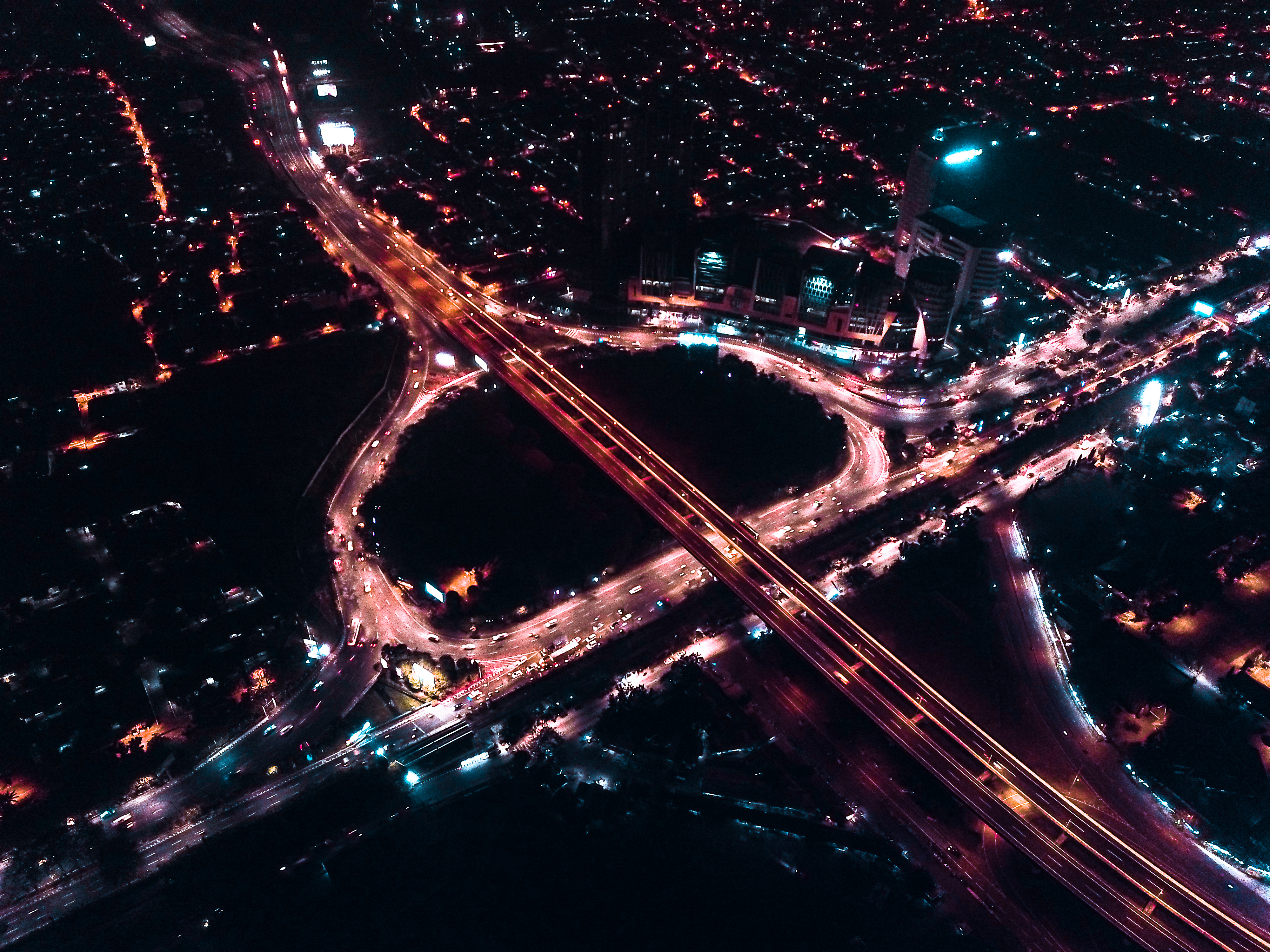 Waru Interchange and City of Tomorrow Superblocks, bordering with Surabaya and Sidoarjo (July 2018).